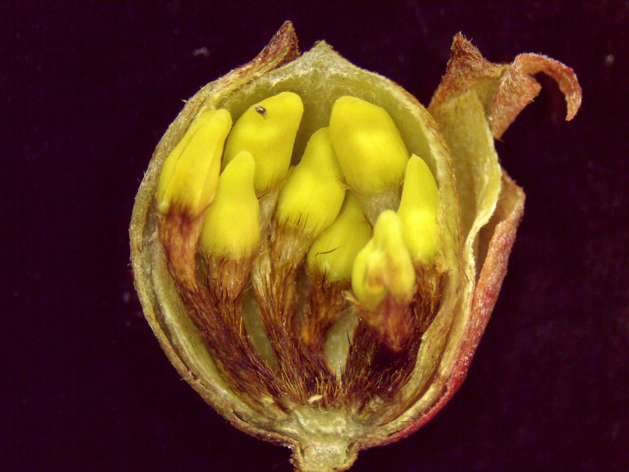 Bio art: Cornus mas (Cornelian cherry). Digital Microscope Dino-Lite Pro AM 7000.